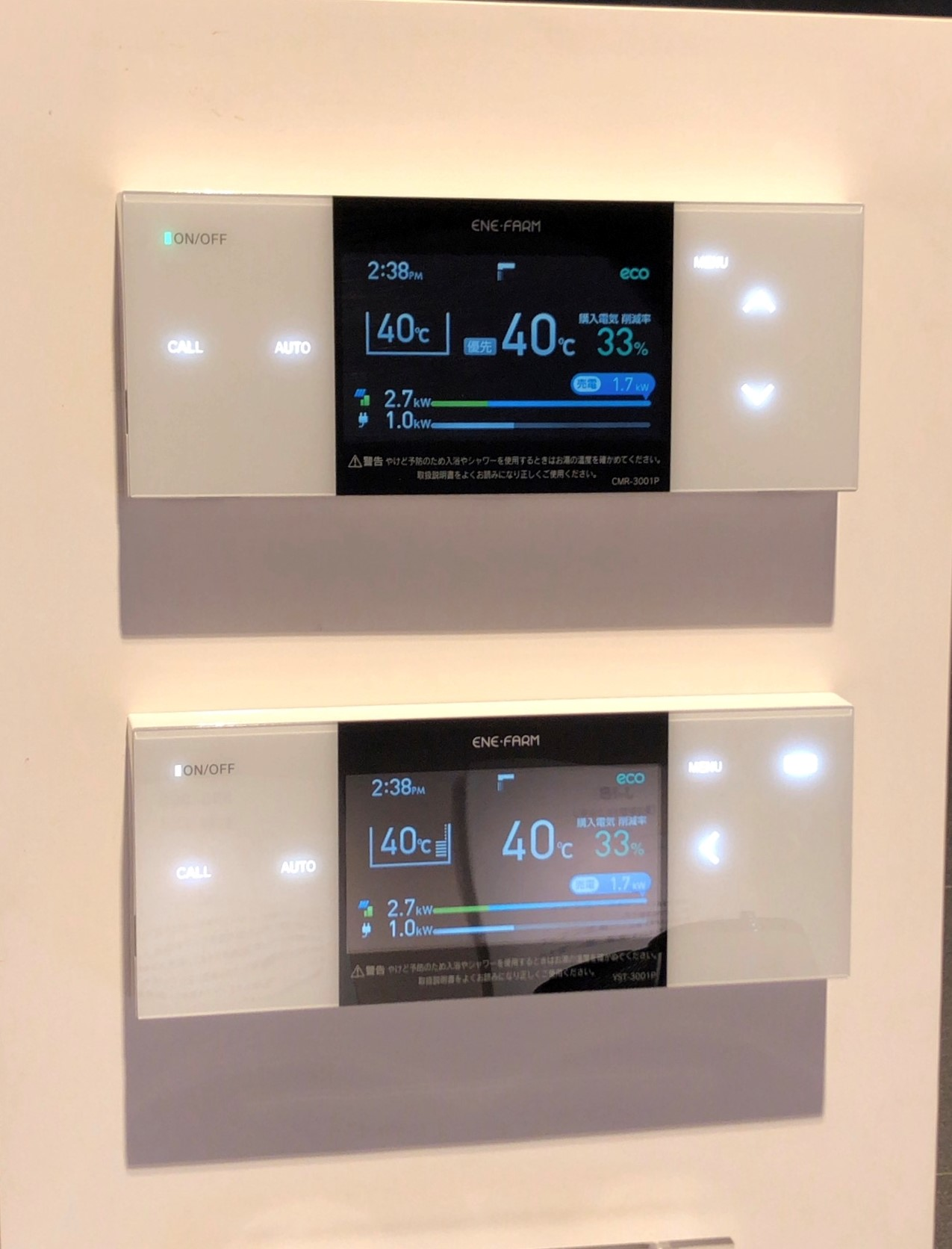 CHOFU SEISAKUSHO - The remote